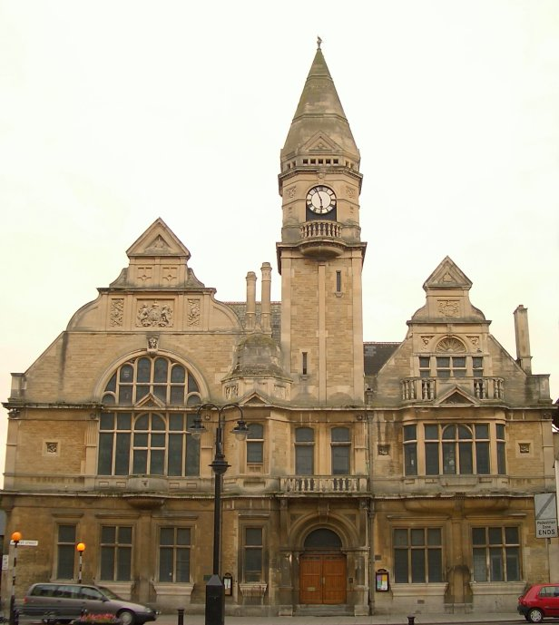 Trowbridge Town Hall, as seen from Fore Street. Market Street runs along the bottom of the picture.